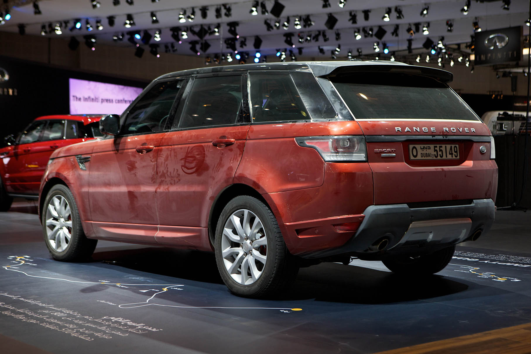 Luxury automotive manufacturer Jaguar Land Rover today revealed a sneak preview of the next generation of its technologically advanced vehicles at the Dubai International Motor Show. Visitors to the five day motor show are among the first in the world to get up close and personal with Land Rover’s exclusive Range Rover Autobiography Black Edition – the pinnacle of desirability that brings even higher levels of refinement to the world’s finest and most capable luxury SUV.